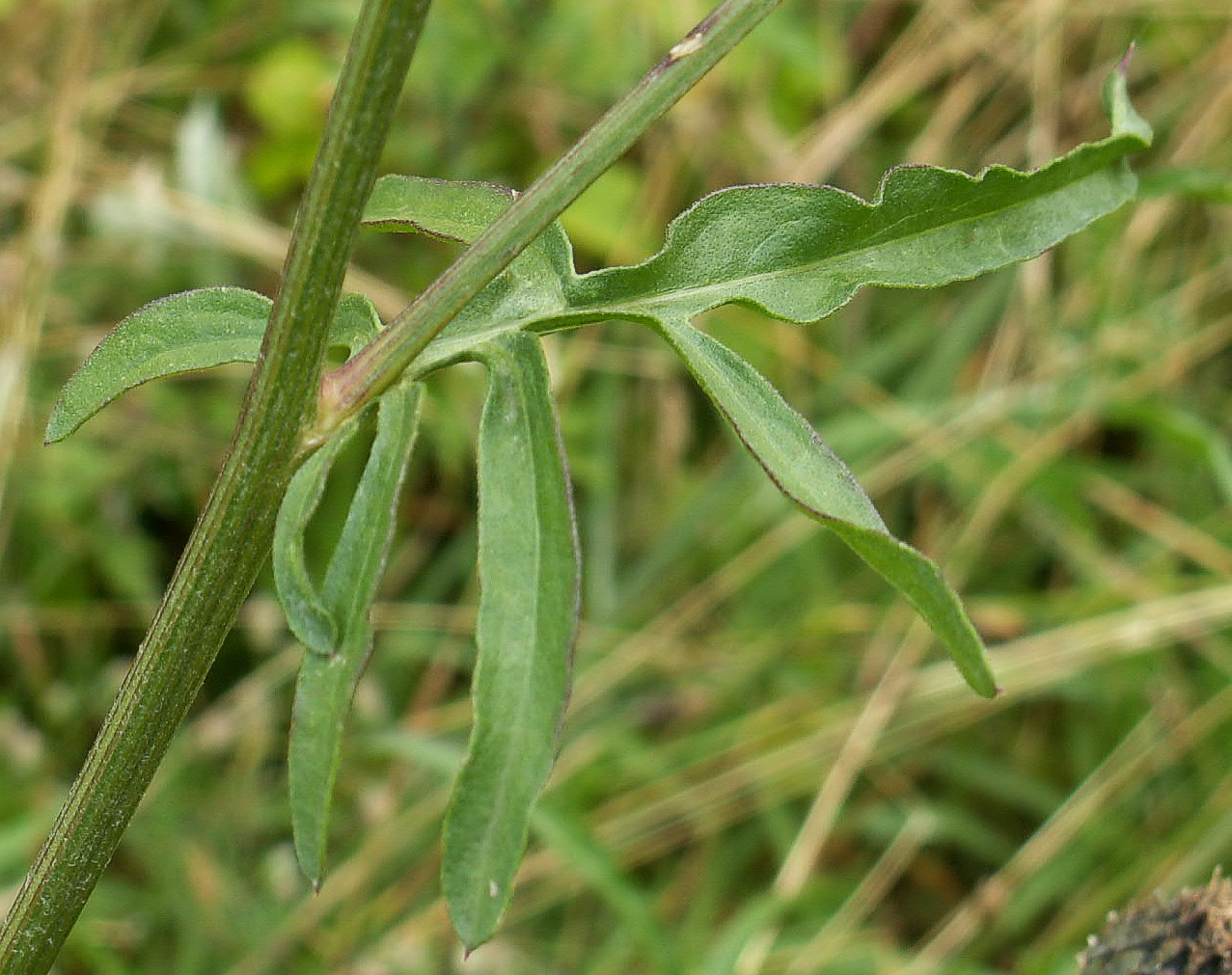 Leaf of Centaurea_scabiosa, Goleniow, NW Poland